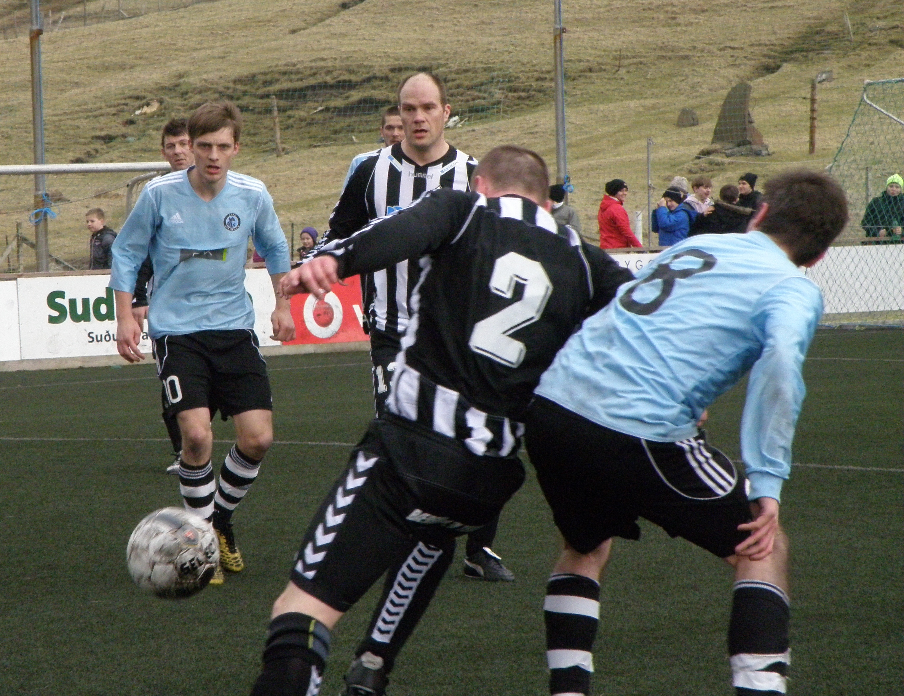 This photo is from the first football round of Effodeildin in the Faroe Island, from the match between TB Tvøroyri and Víkingur Gøta. Víkingur won the match 2-0. The match was played in Vágur, because the now football stadium of TB Tvøroyri was not ready. Føroyskt: Fótbóltsdystur vesturi á Eiðinum í Vági í Effodeildini millum TB og Víking. Víkingur vann dystin 2-0.